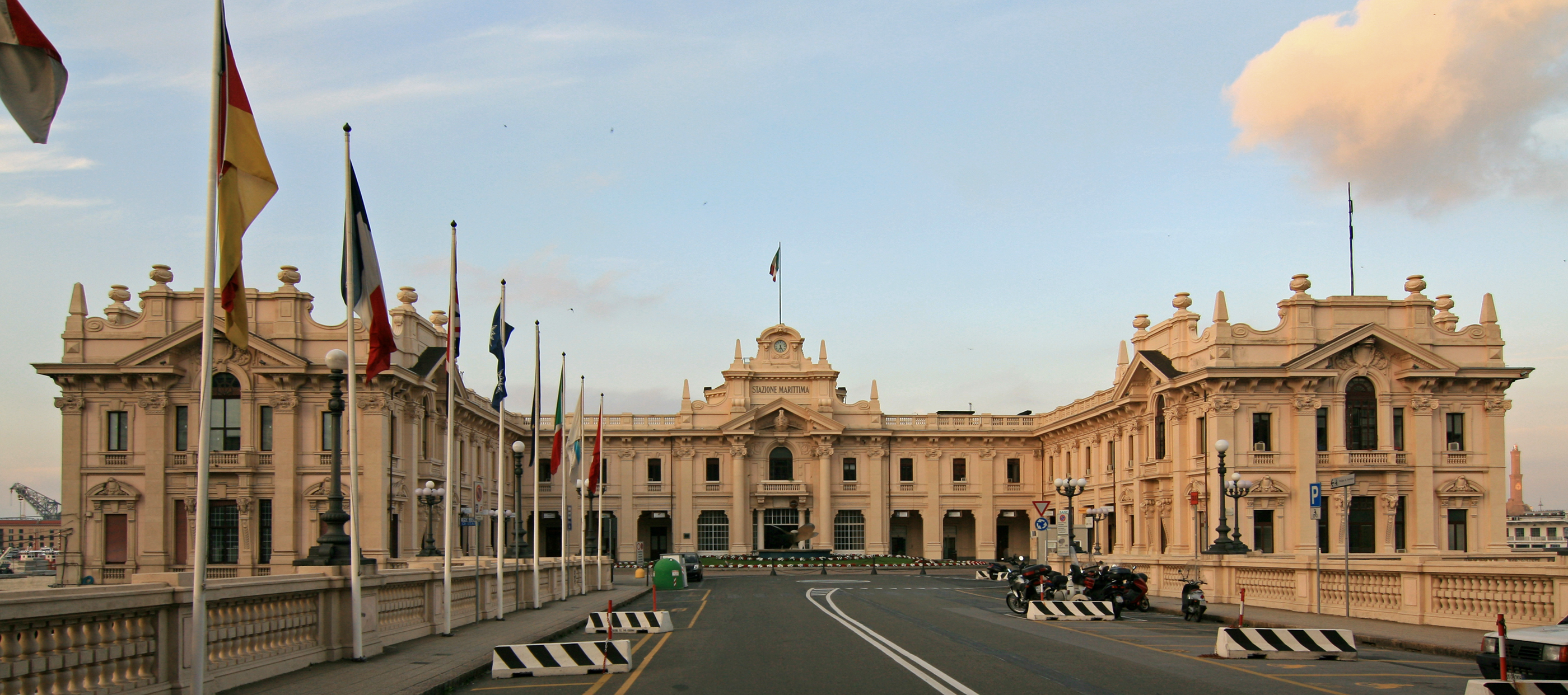 The Stazione Maritima, Genova.